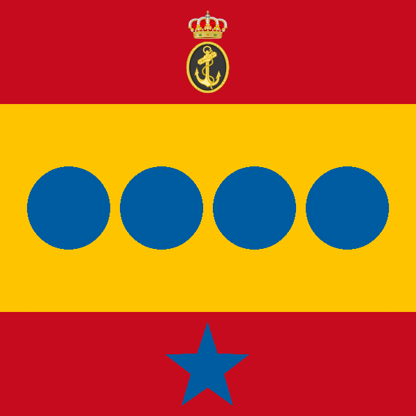 Official flag of the Admiral Chief of Staff the Navy of Spain